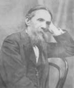 Angelo De Gubernatis, Italian writer and orientalist (1840-1913)